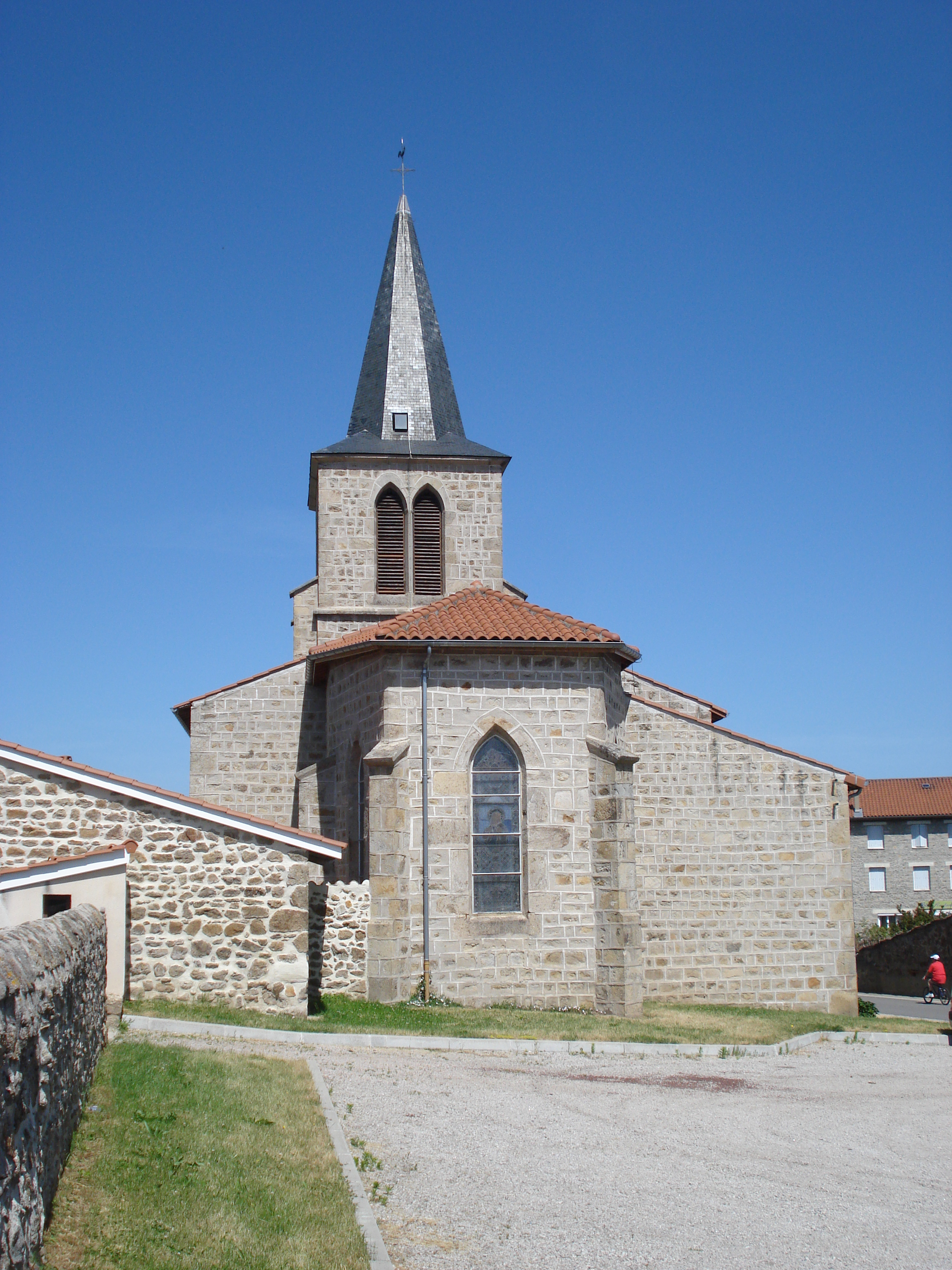 church of Margerie-Chantagret (Loire, Fr)